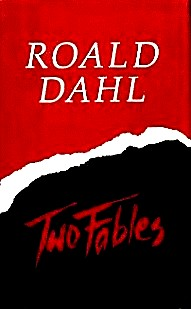 Roald Dahl: Two Fables, London 1986 - book cover. - The book contains the two short stories The Princess and the Poacher and Princess Mammalia.